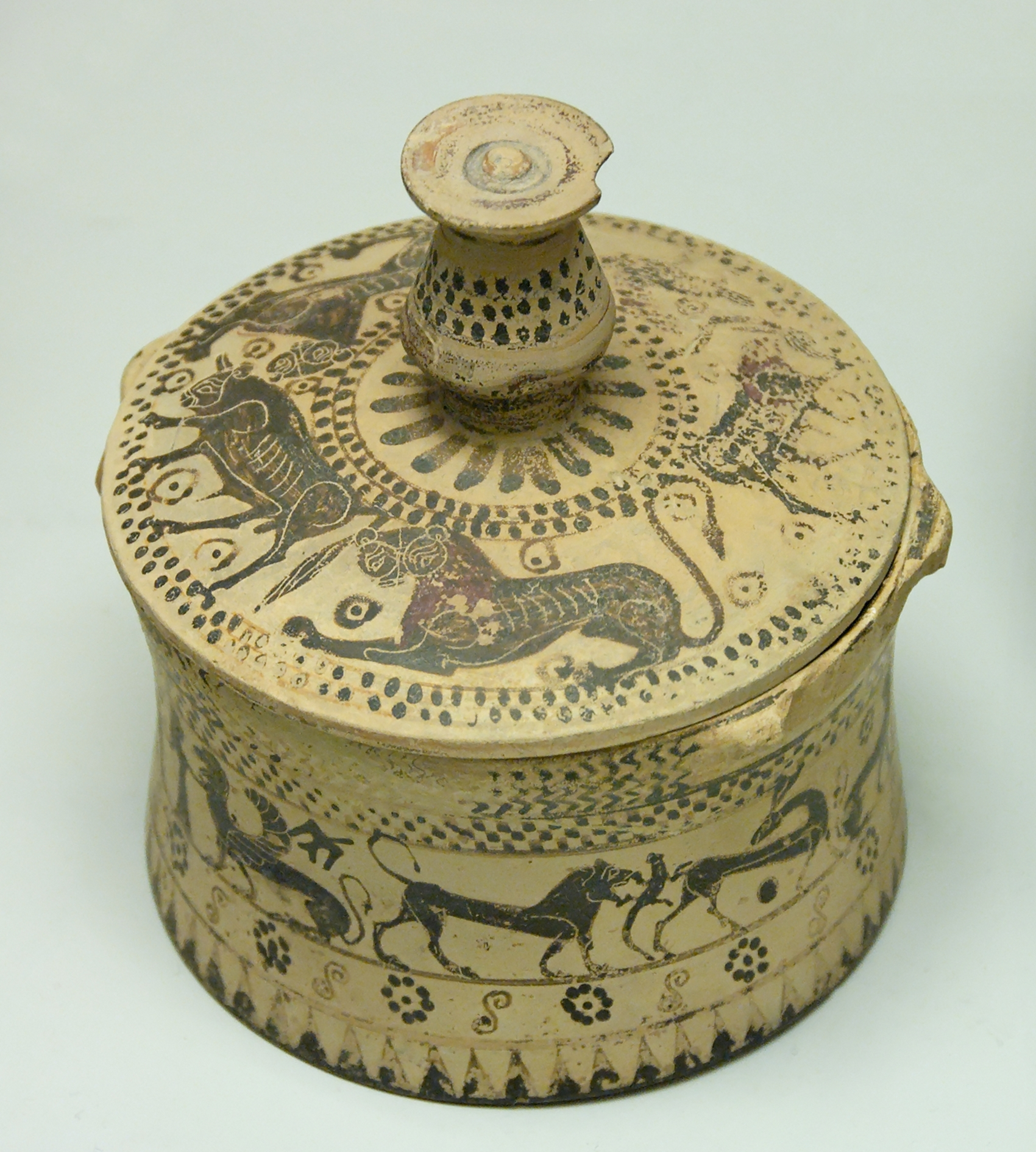 Protocorinthian pyxis with animals (bull, griffins, lions, panthers, sphinxes) and a “mistress of animals” figure. Terracotta, ca. 620 BC.